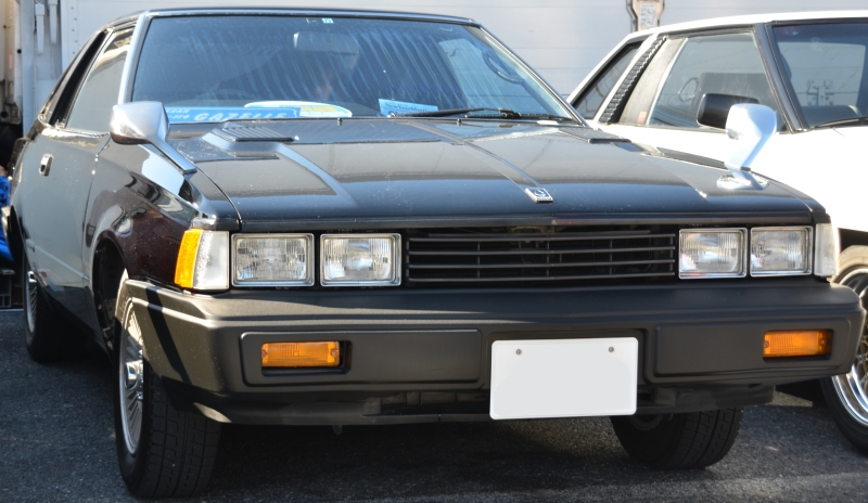 Nissan Gazelle